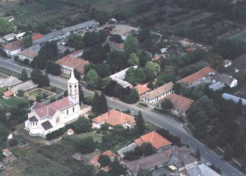 St.Vendel Roman Catholic Church (romantic style, 1862-63), Hungary, aerialphotography